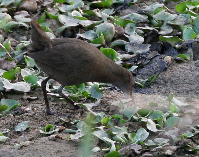 Brown Crake or Brown Bush-hen Amaurornis akool at Hodal, Faridabad, Haryana, India.